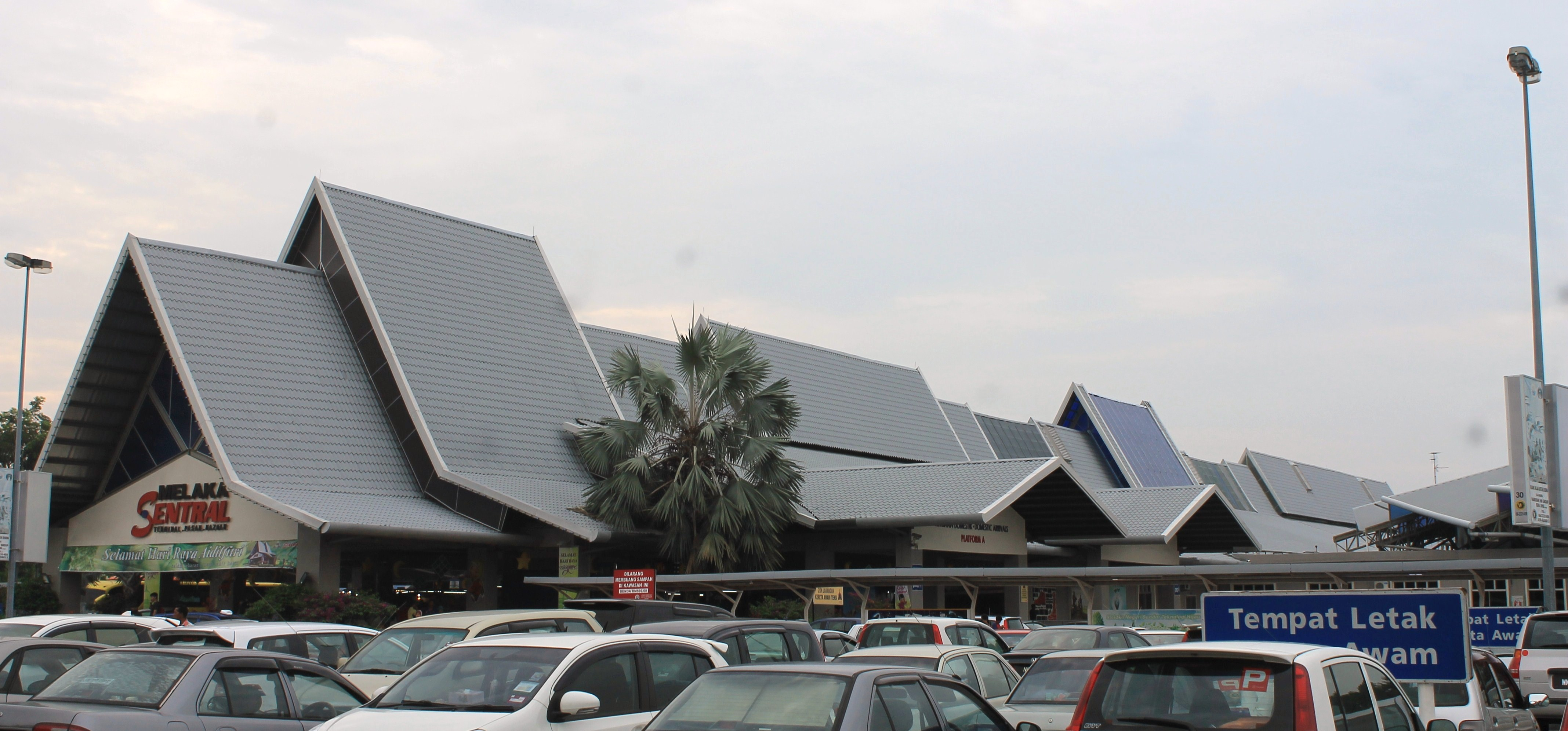 The main building of Melaka Sentral